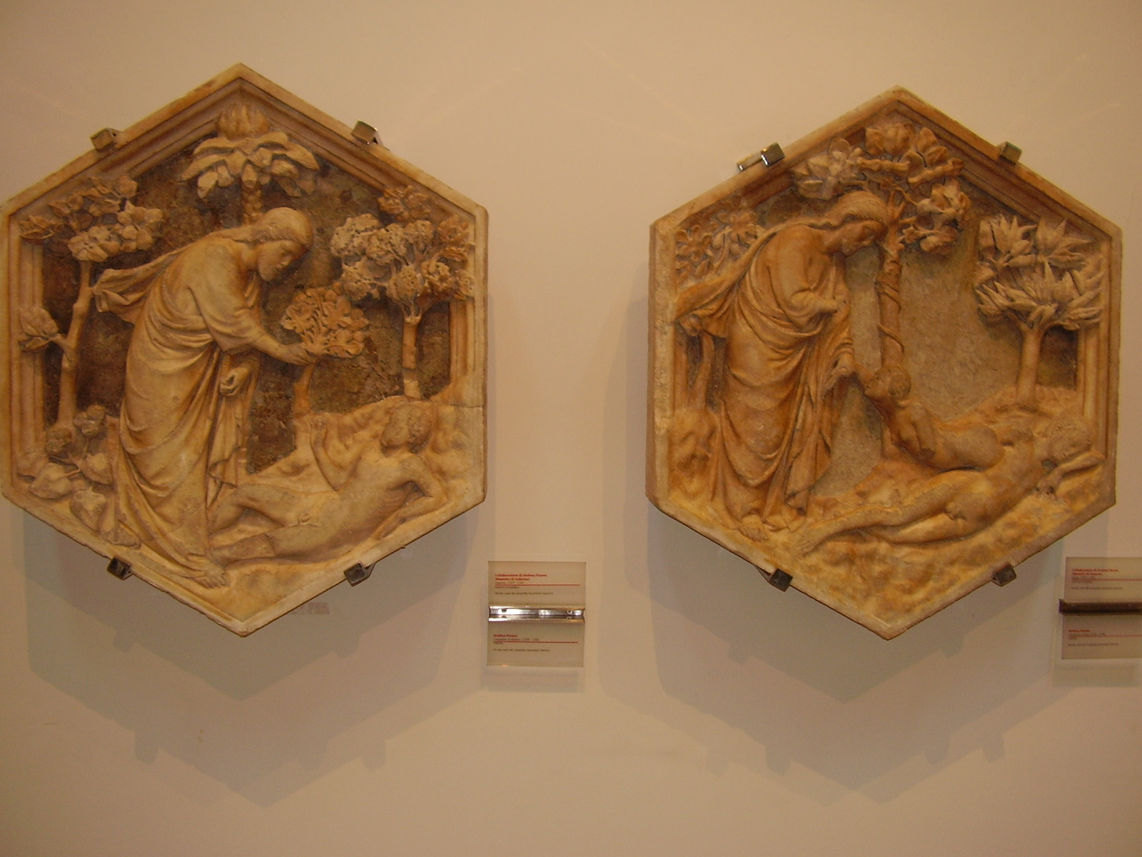 formelle (panels) for the Bell Tower in Opera del Duomo Museum Museo in Florence, Italy Firenze